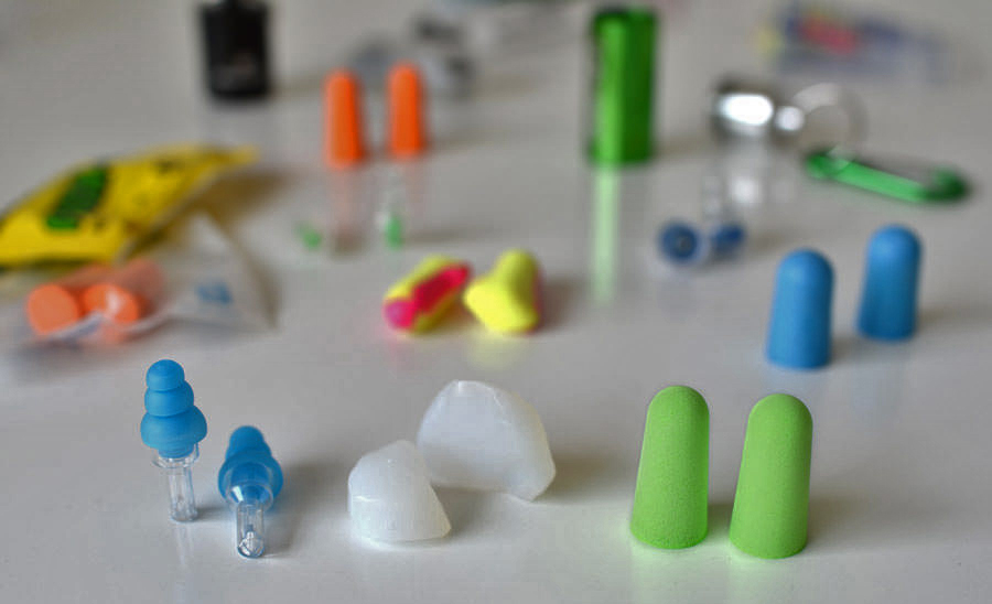 Foam, formable, and pre-formed earplugs